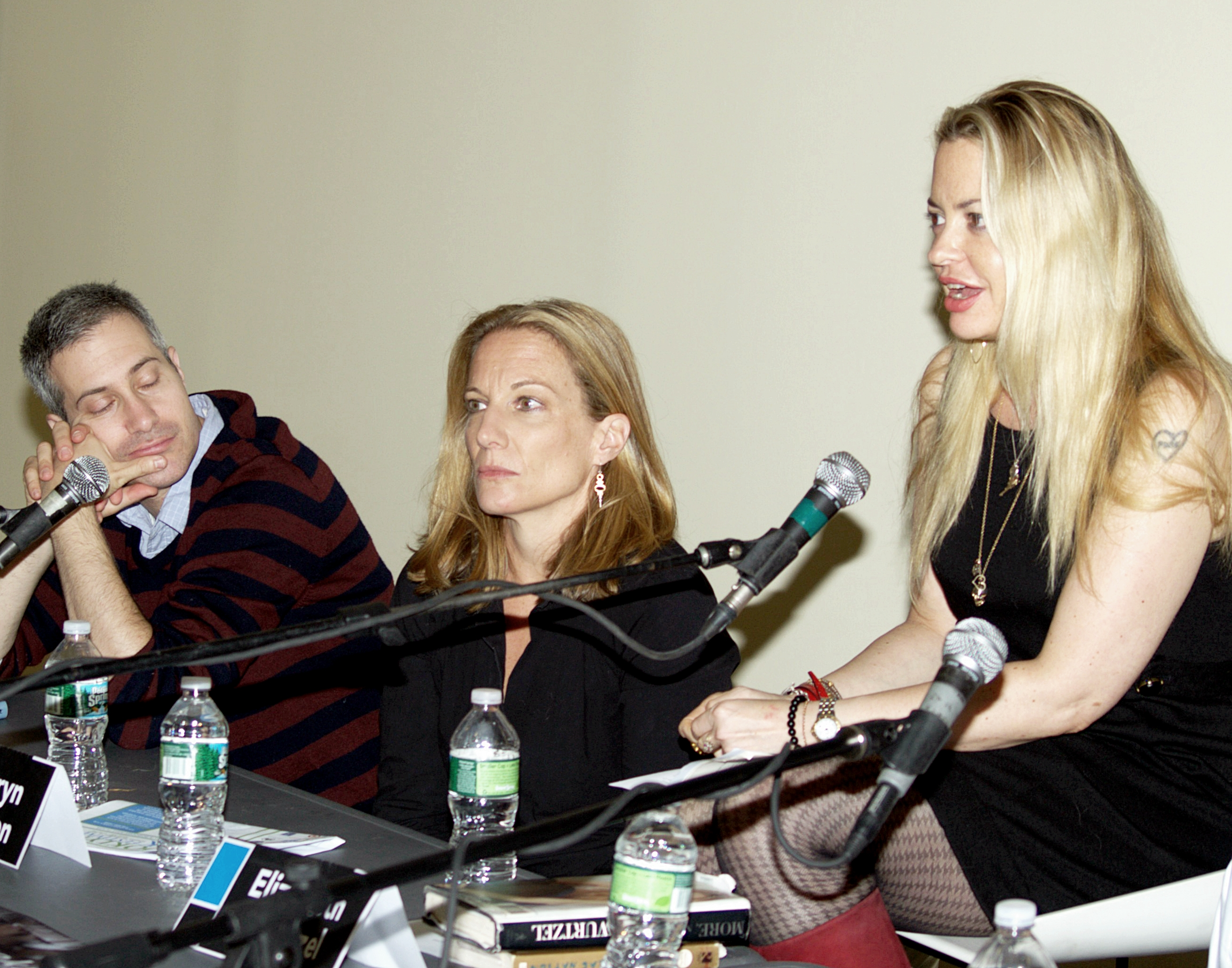 Darin Strauss, Kathryn Harrison and Elizabeth Wurtzel on panel entitled Exposing a Difficult Past at the 2010 Brooklyn Book Festival.